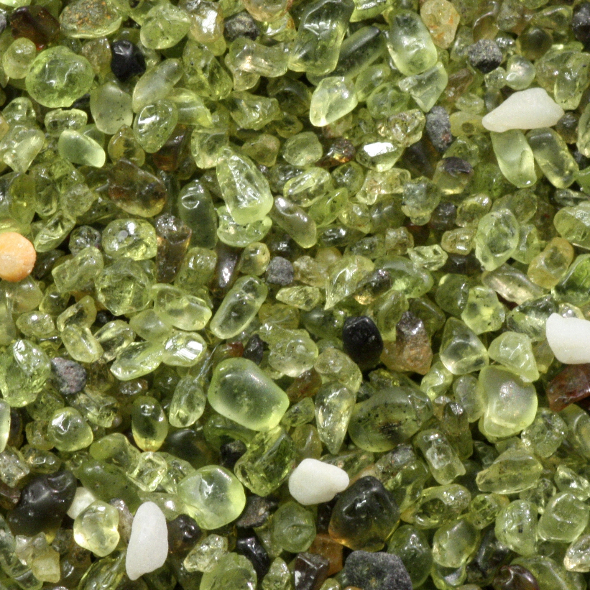 Sand sample from Hawaii (Papakolea Beach). Green is olivine (some olivine grains are darker due to weathering). White grains are coral fragments. Gray grains are pieces of basaltic rock. Orange grain on the left is a foraminifer. The width of the view is 1 cm.